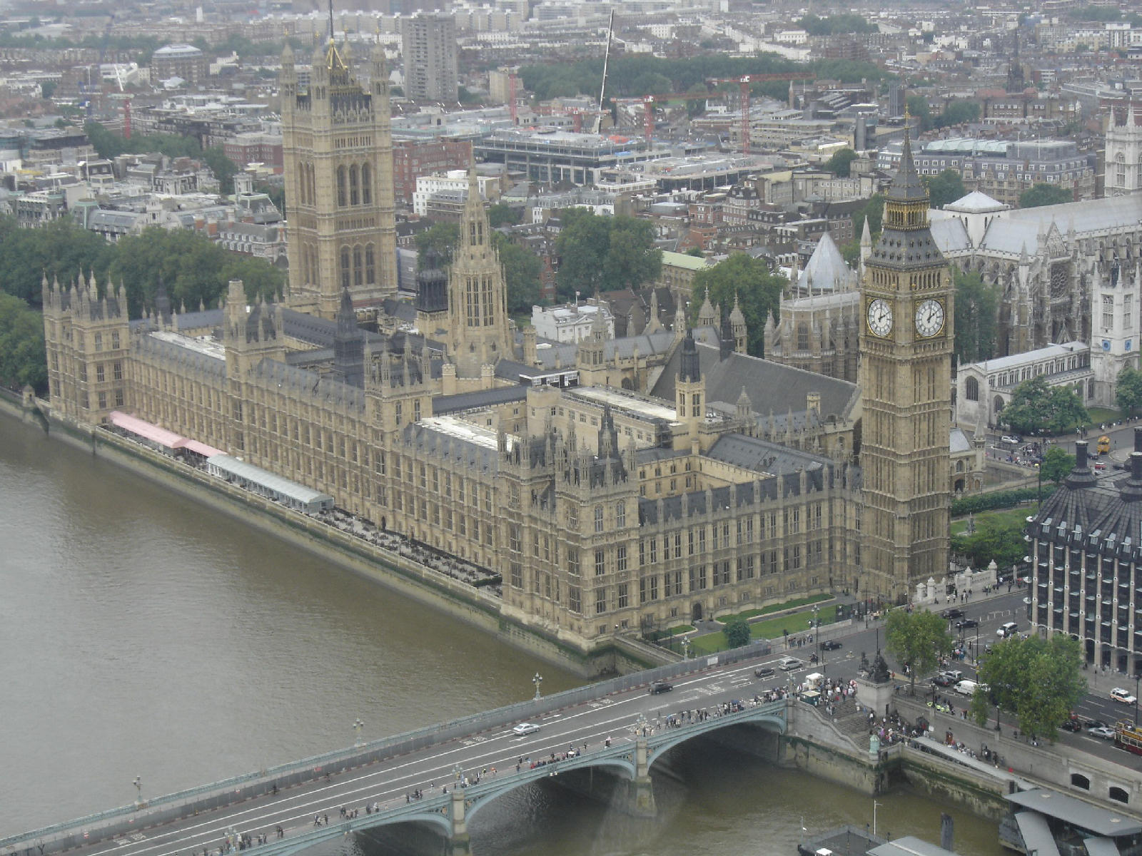 Houses of Parliament, London, by daylight from the London Eye, summer 2004, taken by me Martin Richards